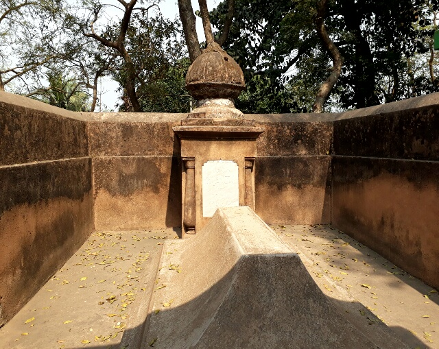 Mir Madan's Tomb near Rejinagar, Murshidabad.